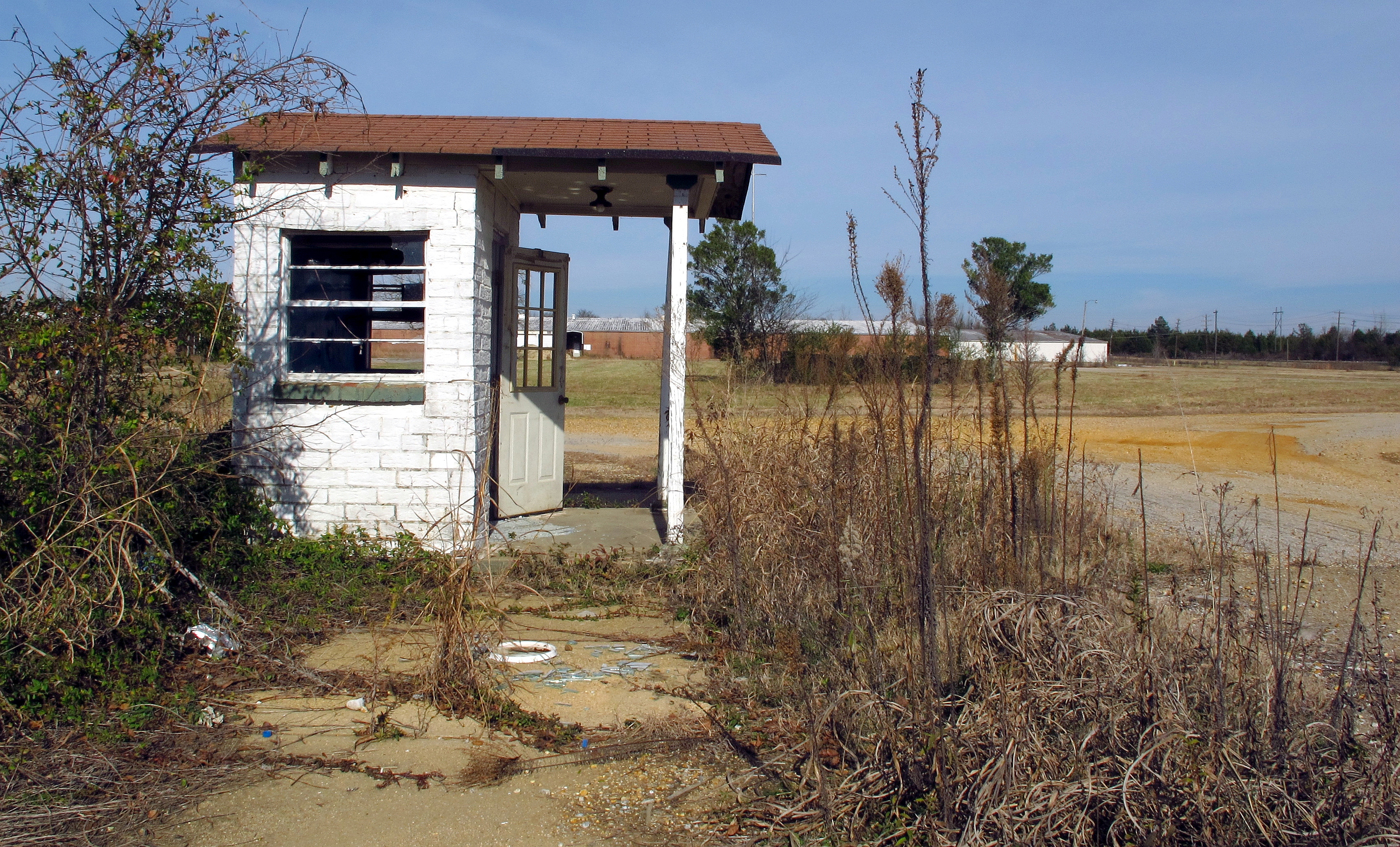 Abandoned entrance to Gulf Ordnance Plant, Prairie, Mississippi.